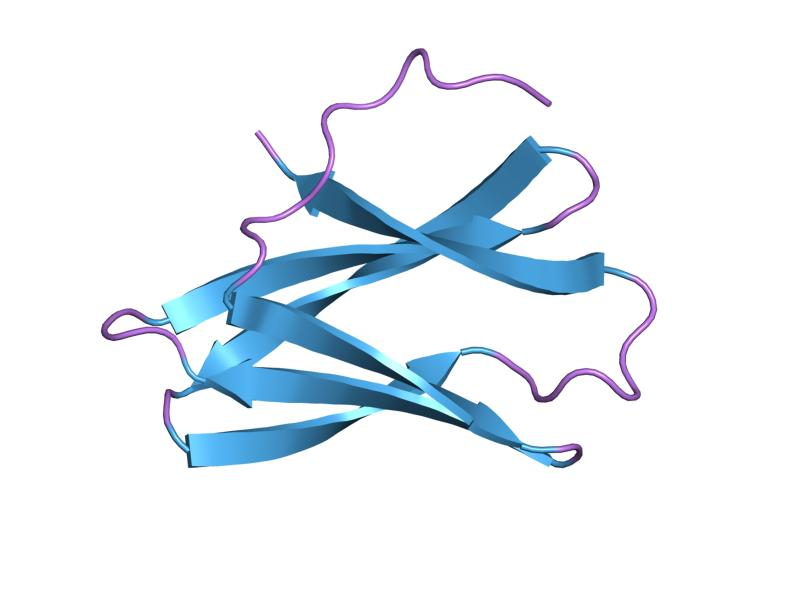 Cartoon representation of the molecular structure of protein registered with 1hoe code.